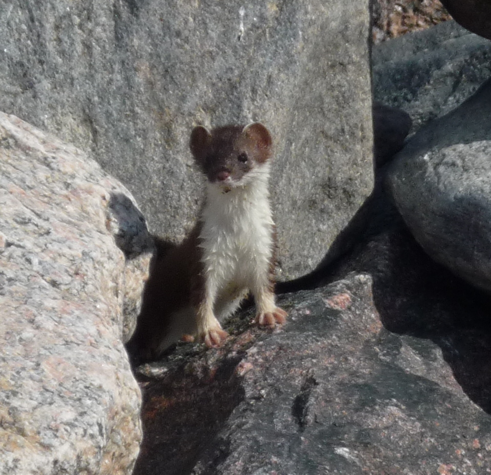 Mustela erminea. Fur is wet because it has gone to sea earlier. Picture taken in northern part of Muhu, Saare county, Estonia, Europe.